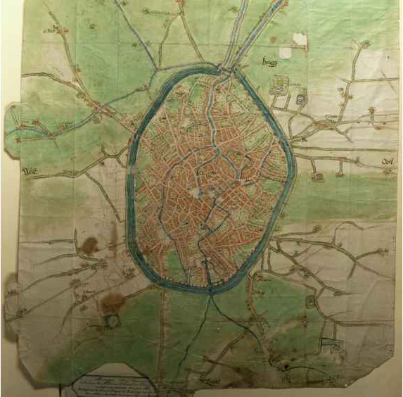 Brugge, Belgium_;_ detail from Deventer_Map